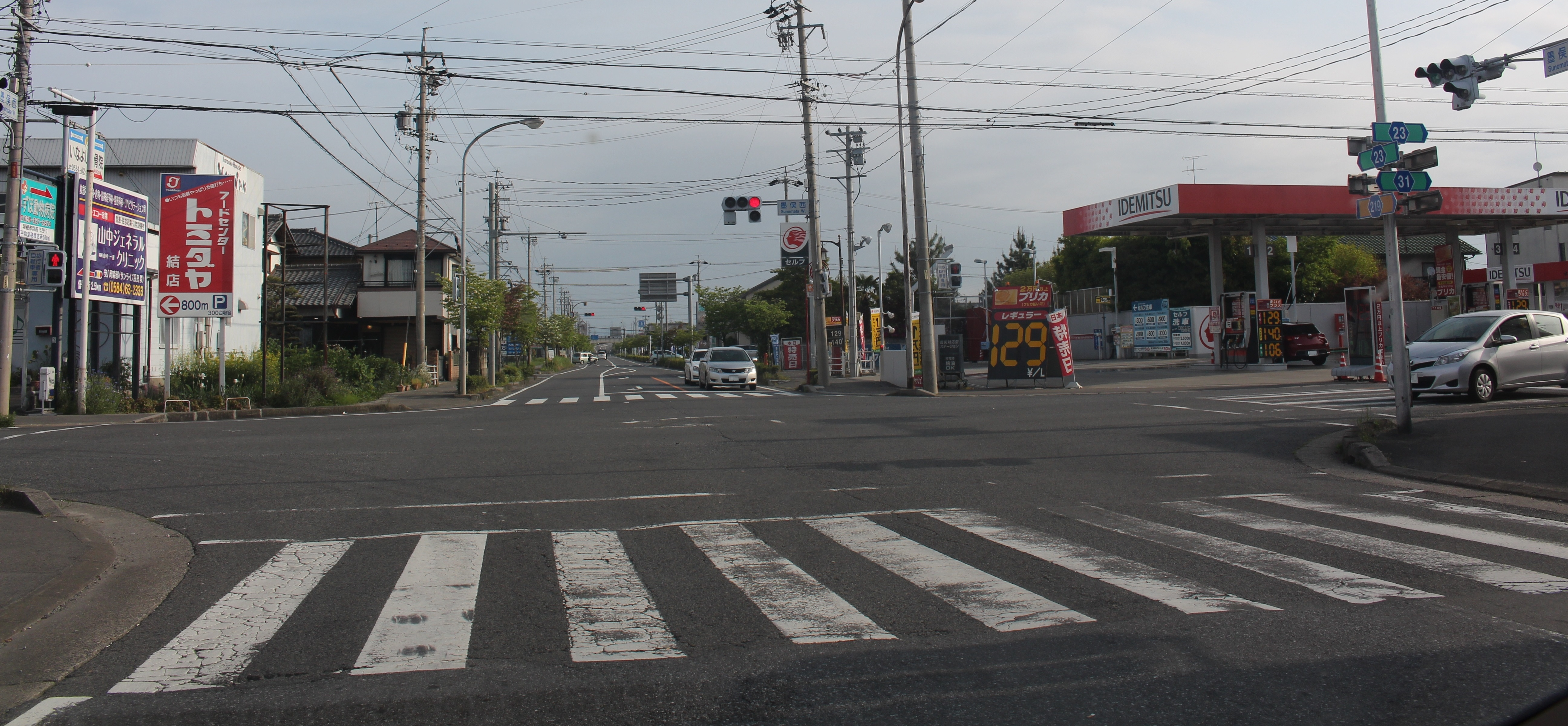 Gifu Prefectural Road Route 219 in Sunomata, Sunomata-cho, Ogaki, Gifu prefecture, Japan.